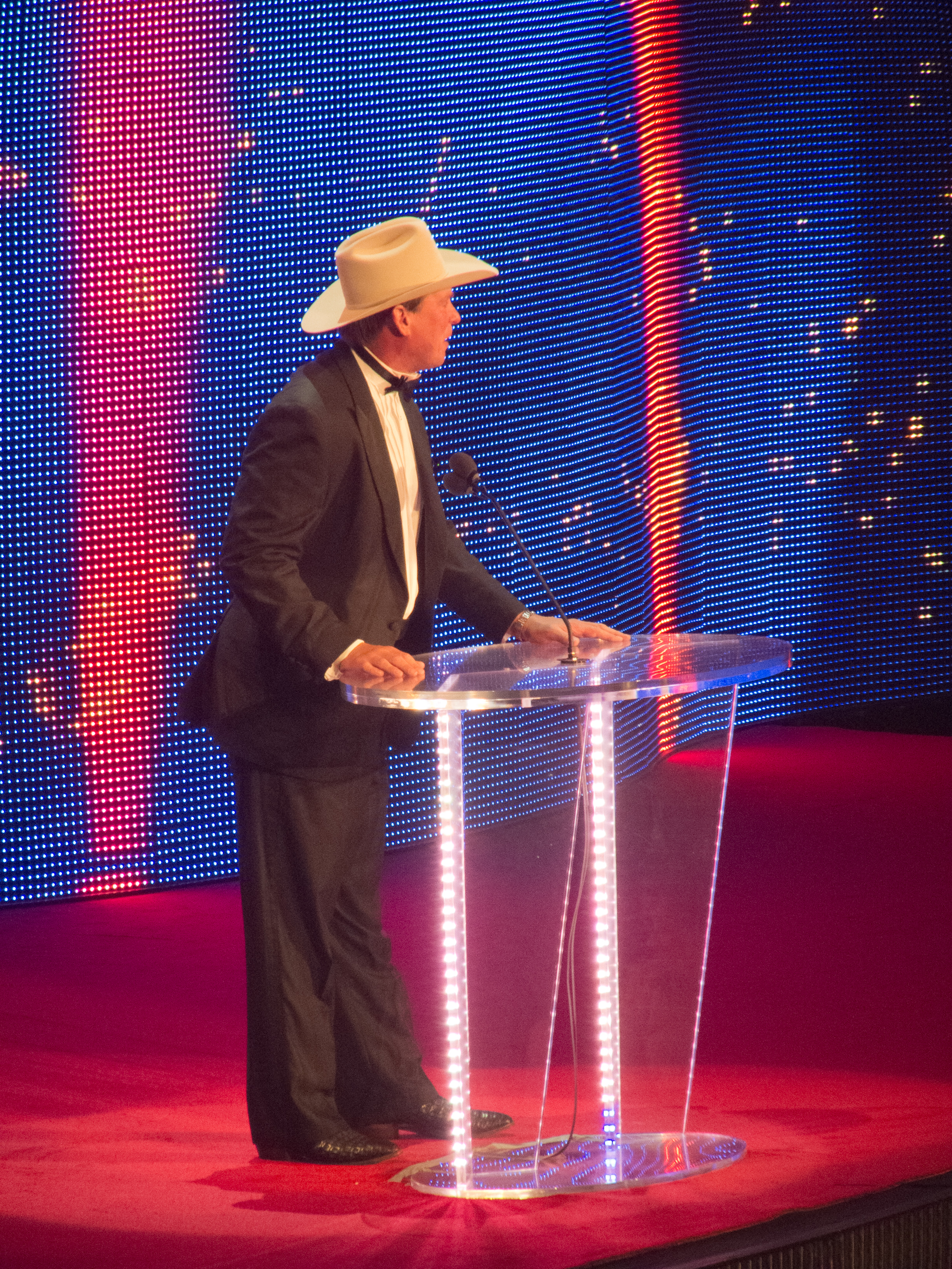 WWE Hall of Fame 2012 - Ron Simmons